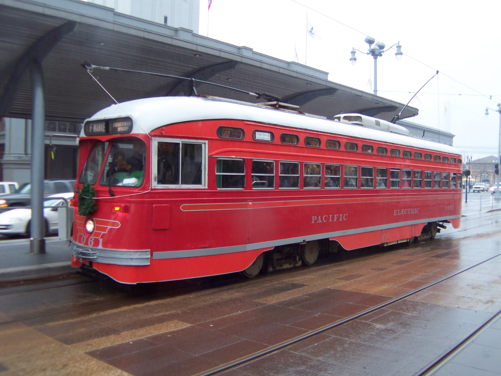 San Francisco Municipal Railway #1061, a rebuilt PCC streetcar painted in honor of the Pacific Electric Railway , is seen in service on the F Market heritage line in December, 2004. This single-ended car was originally built for the City of Philadelphia in 1946 (Pacific Electric only operated double-ended PCC's)